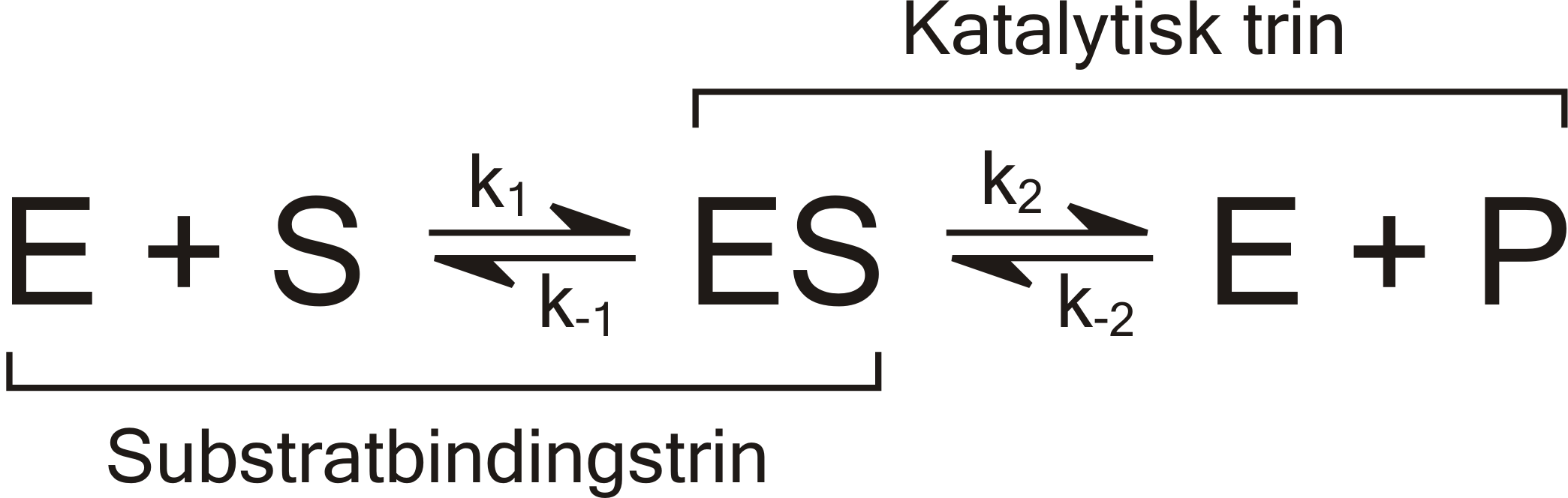 Enzyme catalysis, schematic diagram of simple reaction. Danish version of Image:Schemat katalizowanej reakcji.svg